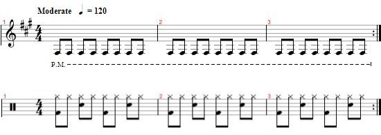 example of a riff of traditional heavy metal